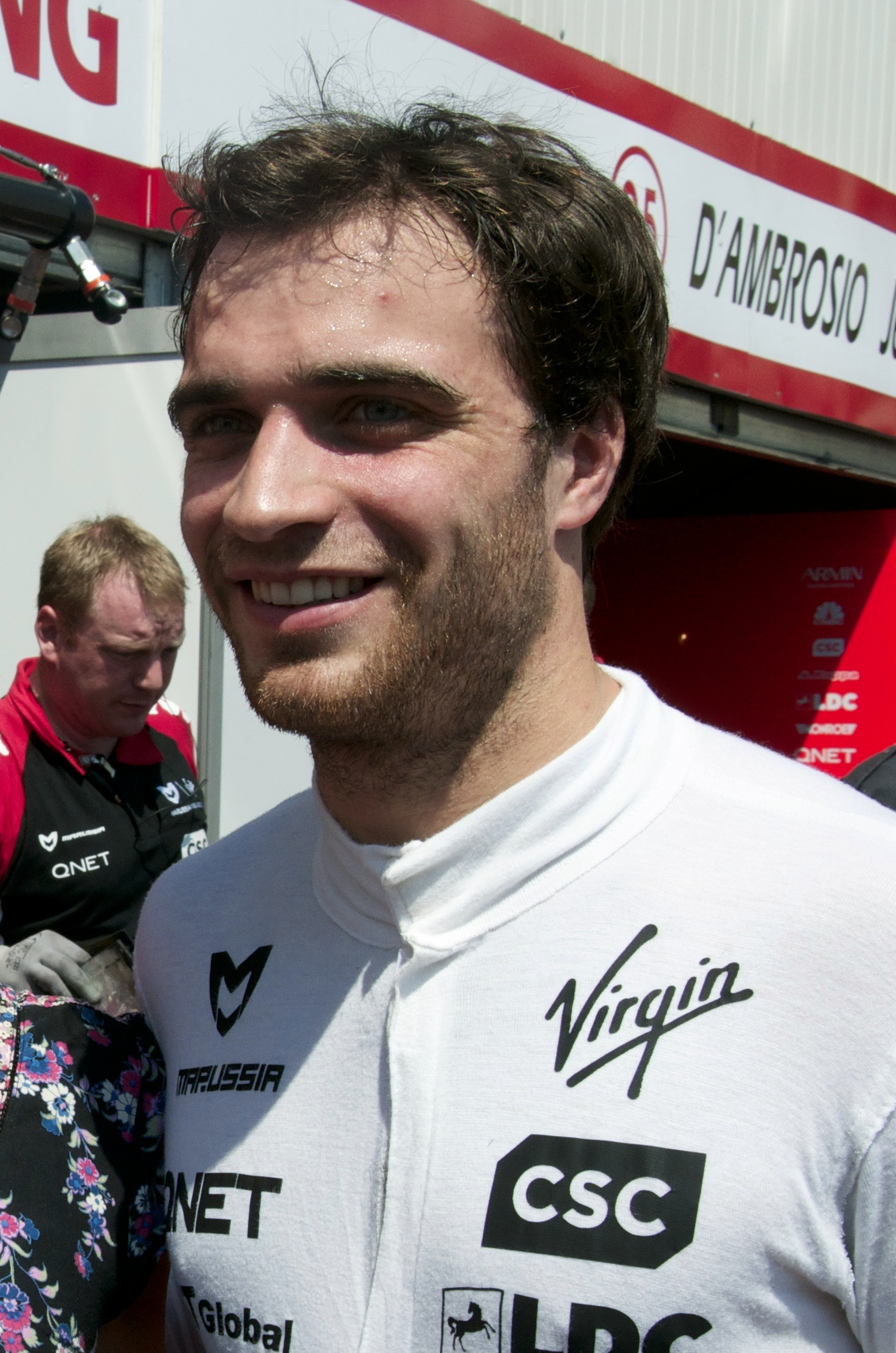 Жером Д’Амброзио на Гран-при Монако 2011 года